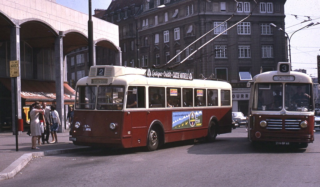 Trolleybus and bus of TCM, in Mulhouse, France, in 1966. The trolleybus, No. 113, was one of 11 trolleybuses (109–119) built for the Mulhouse system by Somua.